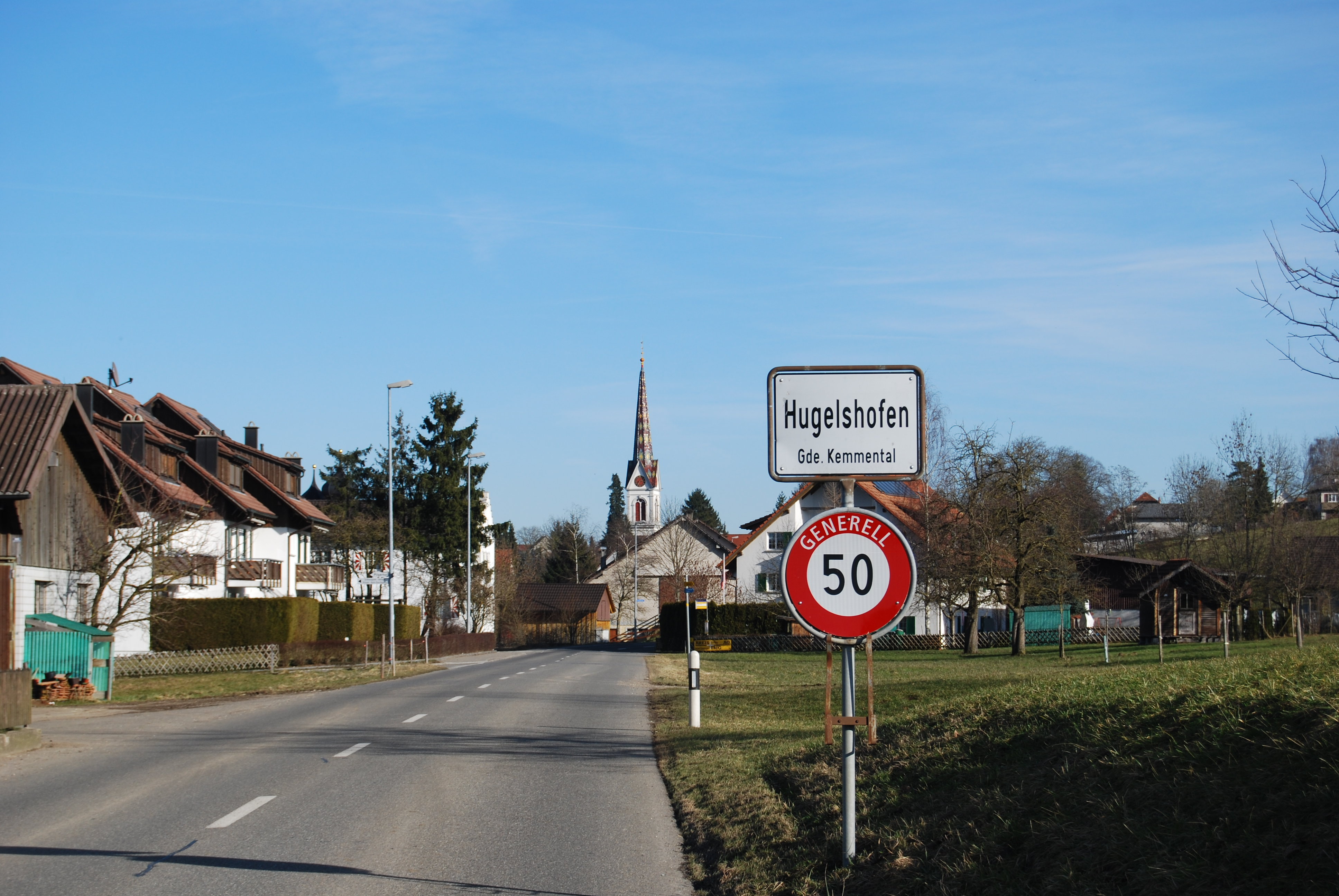 Hugelshofen, municipality of Kemmental, canton of Thurgovia, Switzerland